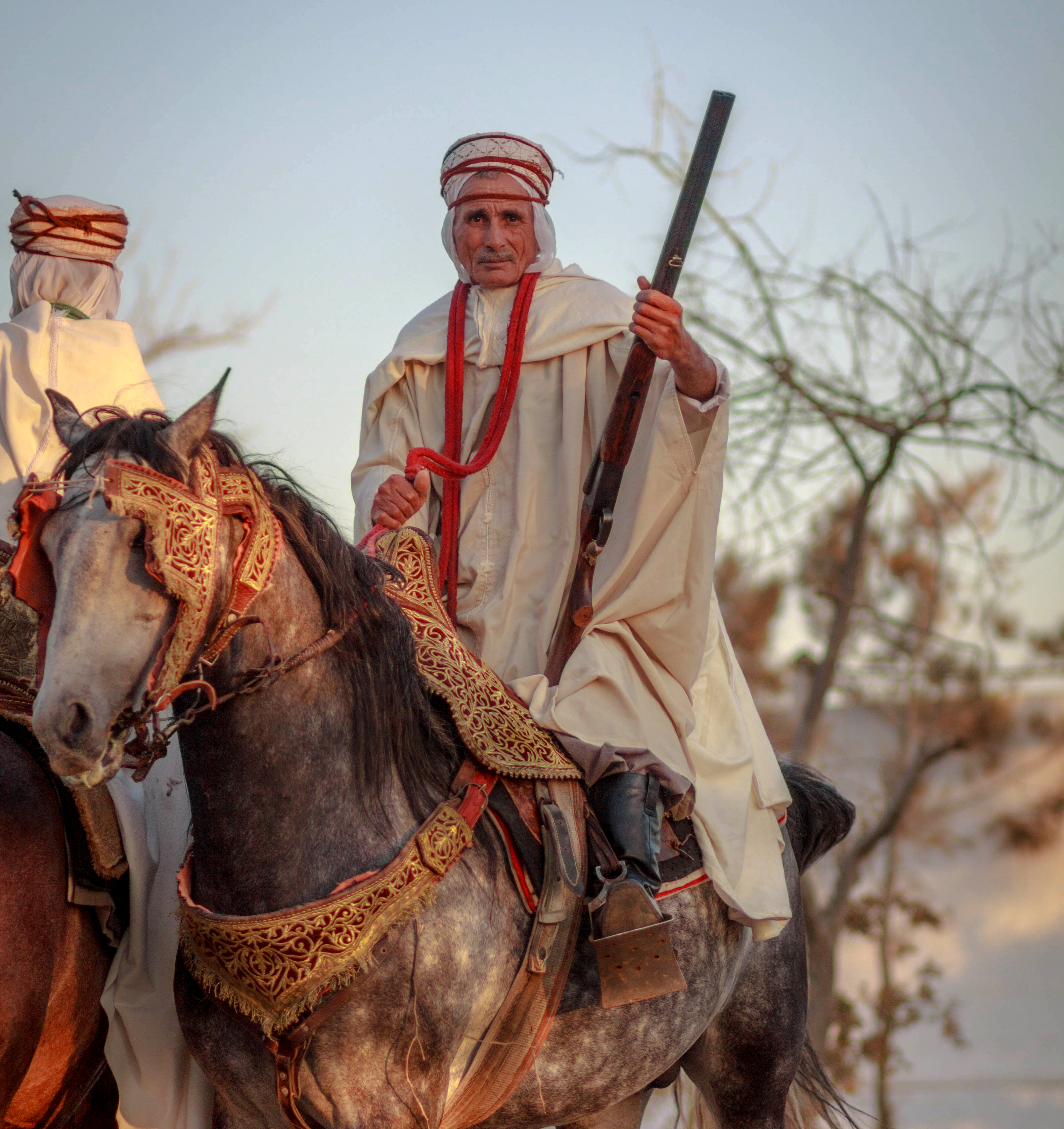 Warrior of the fantasia, in kherouba Algiers, Algeria This is an image of Cultural Fashion or Adornment from Algeria